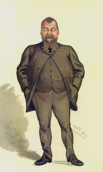 Caricature of Henry Broadhurst MP. Caption read "the working-man Member".